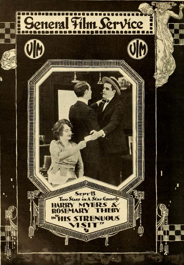 Advertisement in Moving Picture World